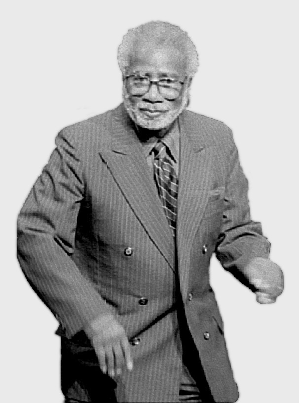 Photograph of Tap Dancer LaVaughn Robinson